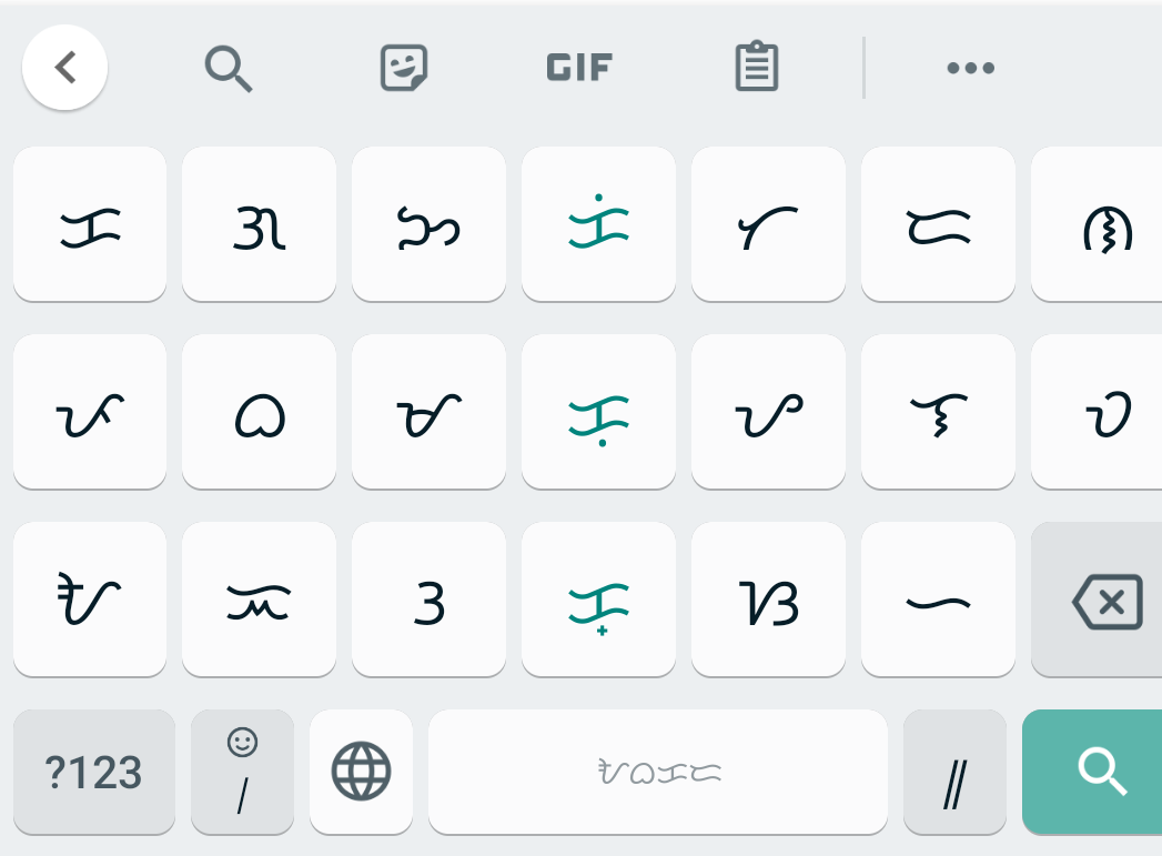 A screenshot image of the Baybayin keyboard on Gboard. This shows the typing mode style that automatically lets that user select for the vowels for the abugida.